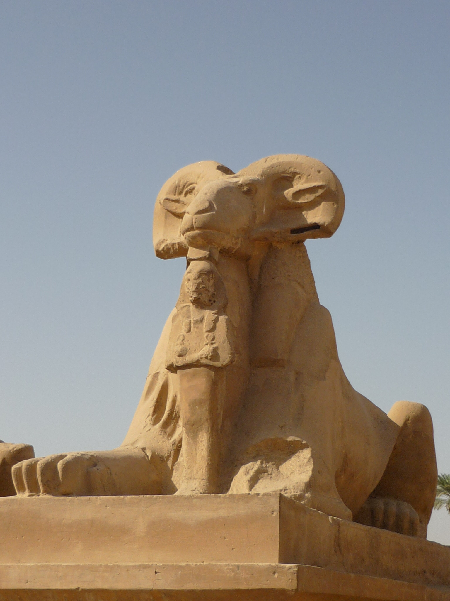 Sphinx (criosphinx) of dromos, Karnak temple of Amun-Ra, Egypt